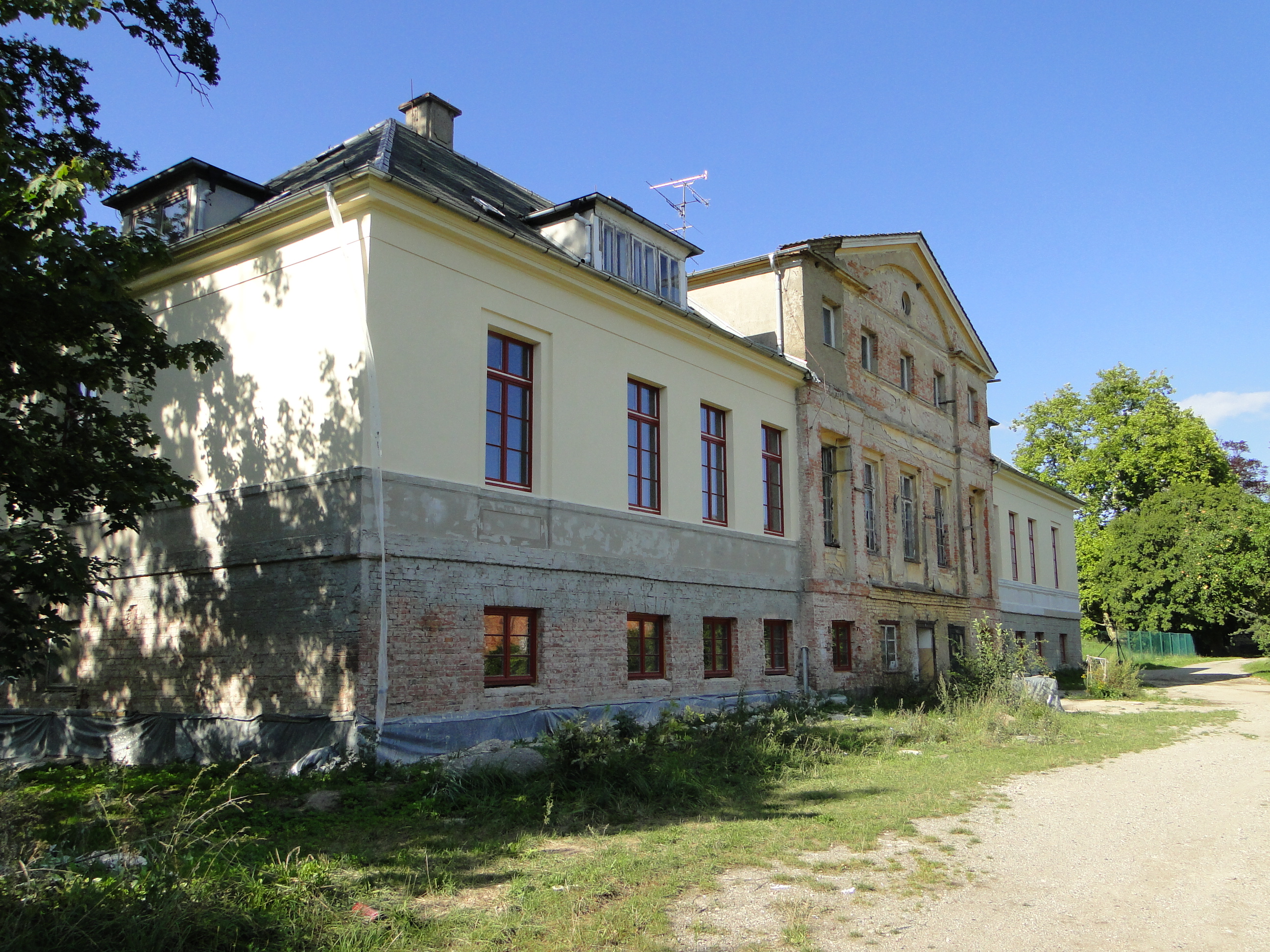 Manor house in Rothspalk, district Rostock, Mecklenburg-Vorpommern, Germany